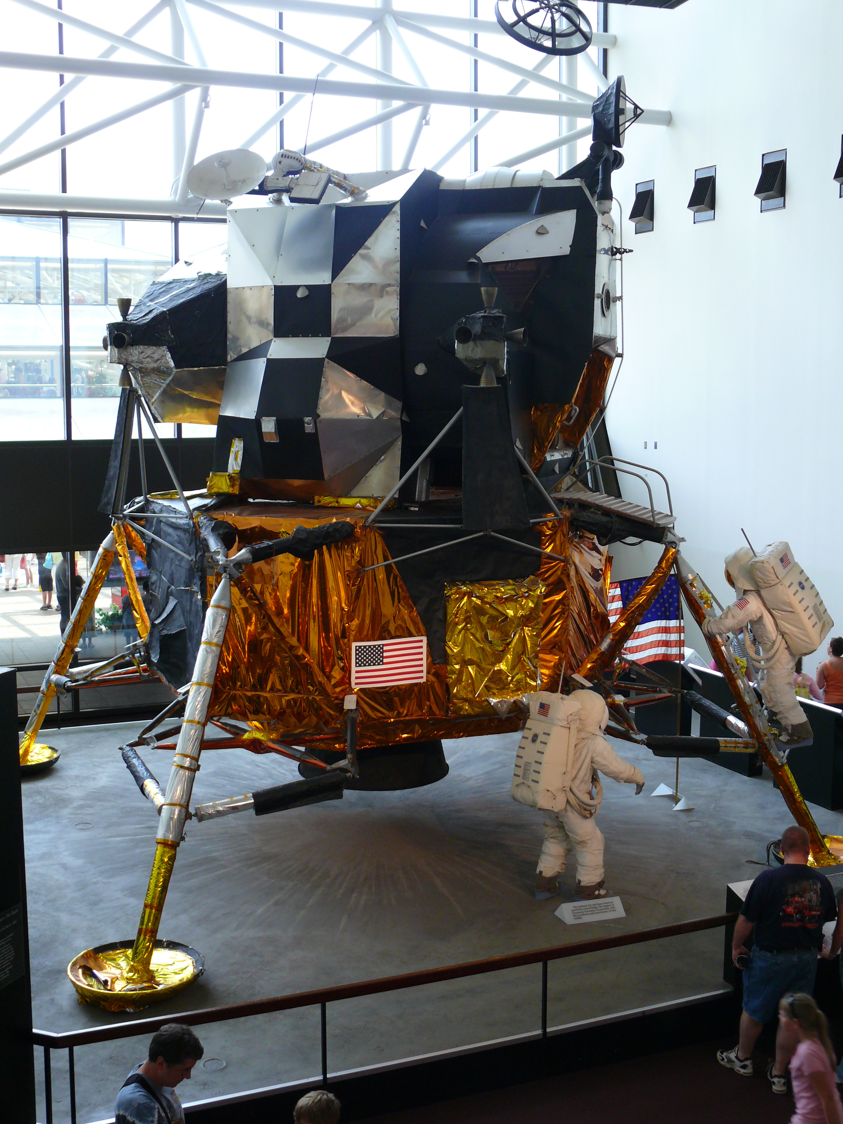 LM 2 at the National Air and Space Museum, Washington DC. The Apollo Lunar Module was the lander portion of the Apollo spacecraft built for the US Apollo program by Grumman to achieve the transit from cislunar orbit to the surface and back. The module was also known as the LM from the manufacturer designation (often pronounced "lem," from NASA's early name for it, Lunar Excursion Module). Since Apollo 5's test of LM were considered so successful, LM 2 was used for drop tests.